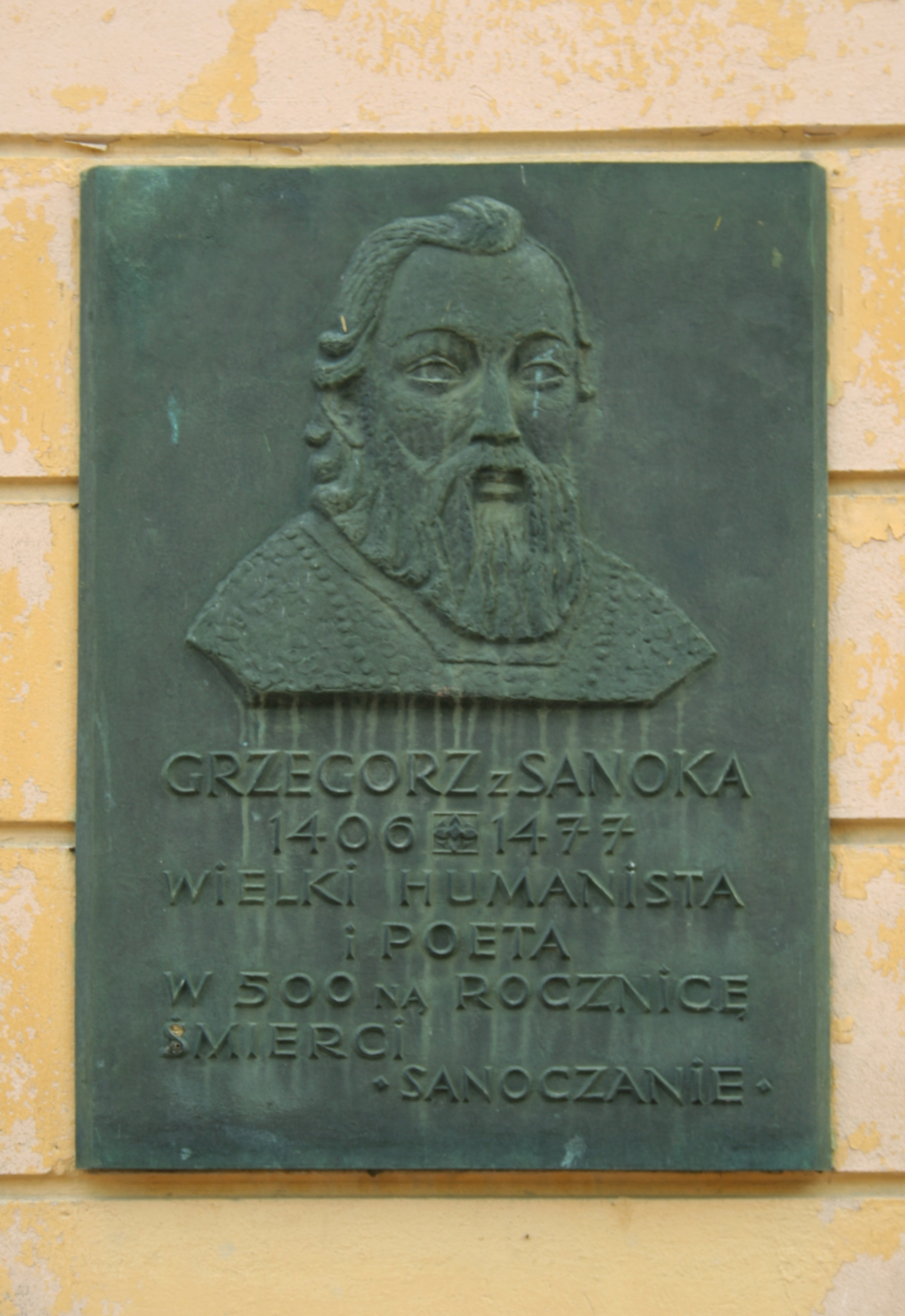 The Plaque in Sanok, Poland